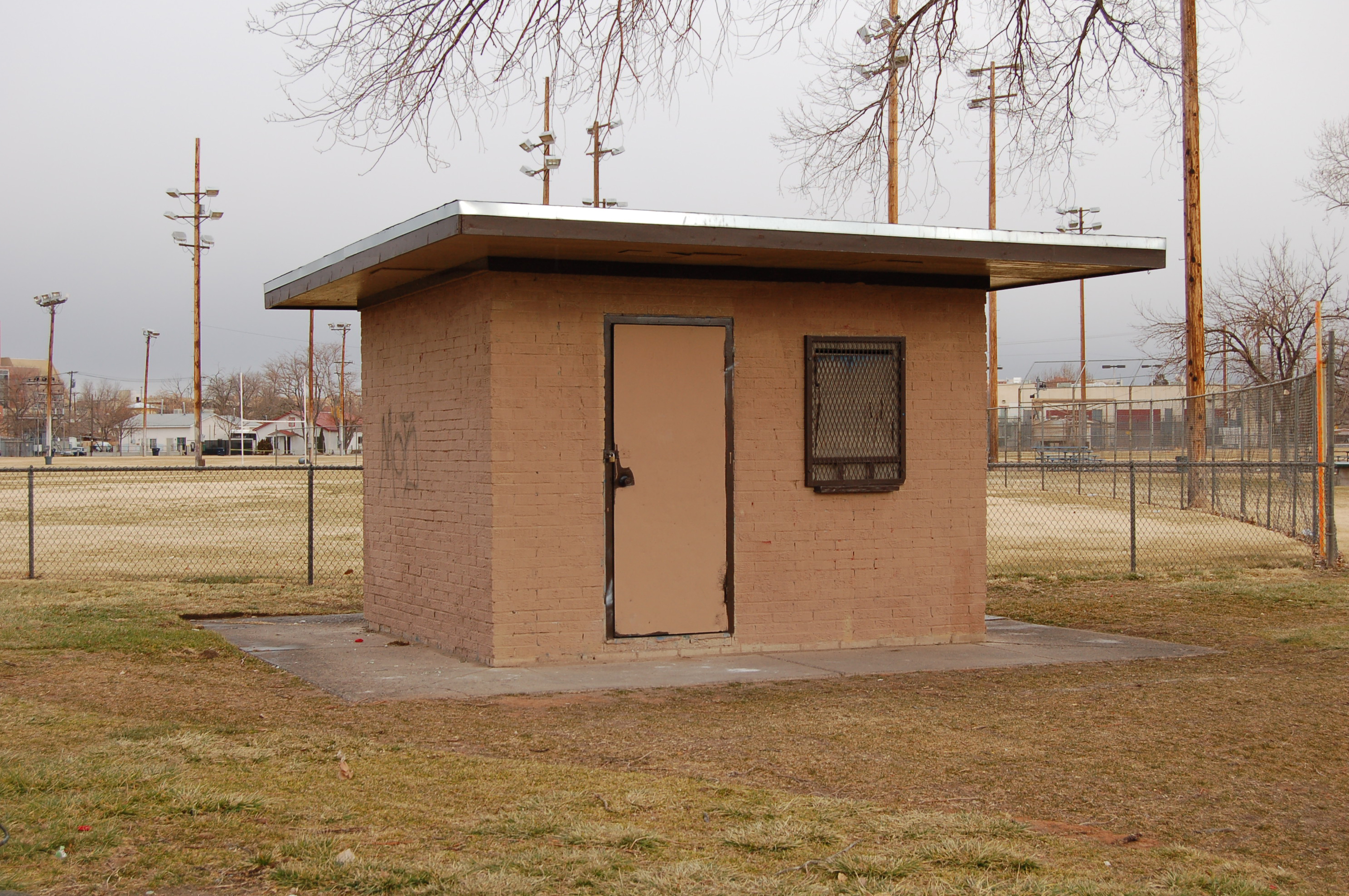 The Tingley Field ticket office, the only remaining part of the former baseball stadium in Albuquerque, New Mexico